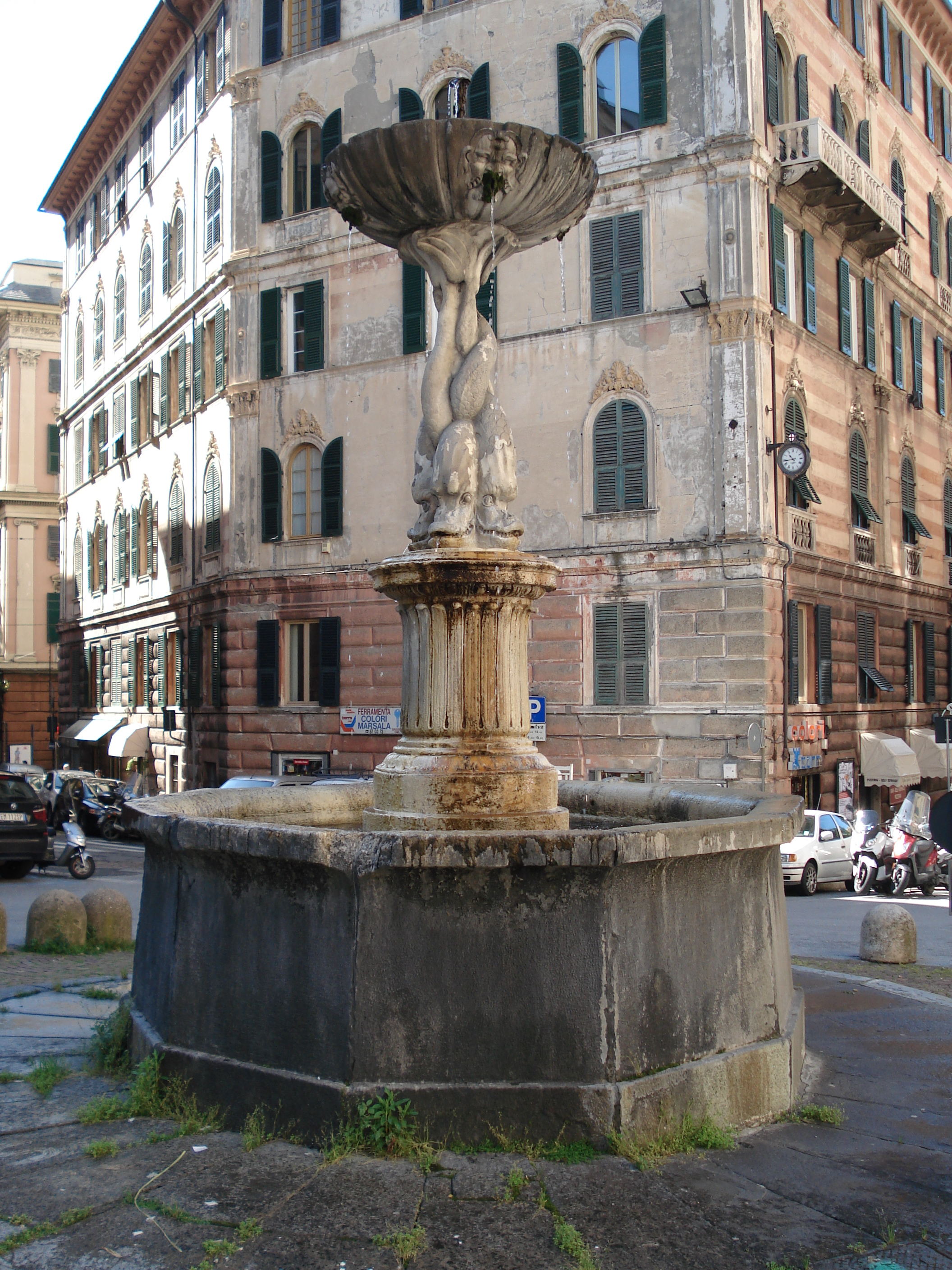 Fountain from Marsala Square in Genoa